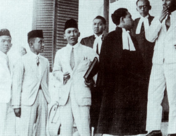 Sukarno.Proces against Indonesian National Party in 1930